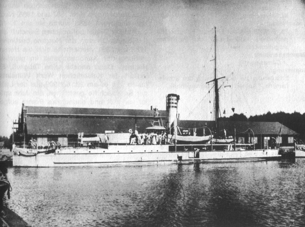 The German armoured gunboat SMS Natter (launched 1880).